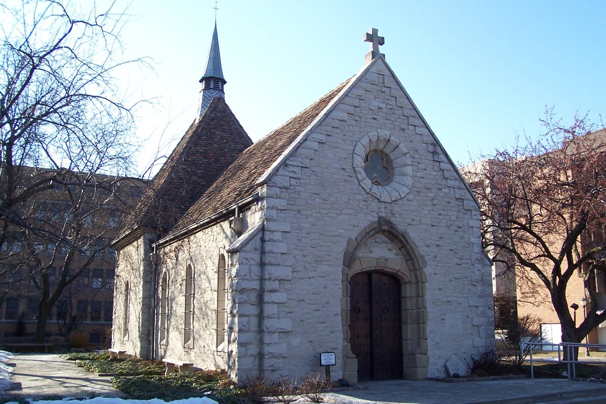 Copyright © 2005 Sulfur The historic St. Joan of Arc Chapel, located on the campus of Marquette University in Milwaukee, Wisconsin.